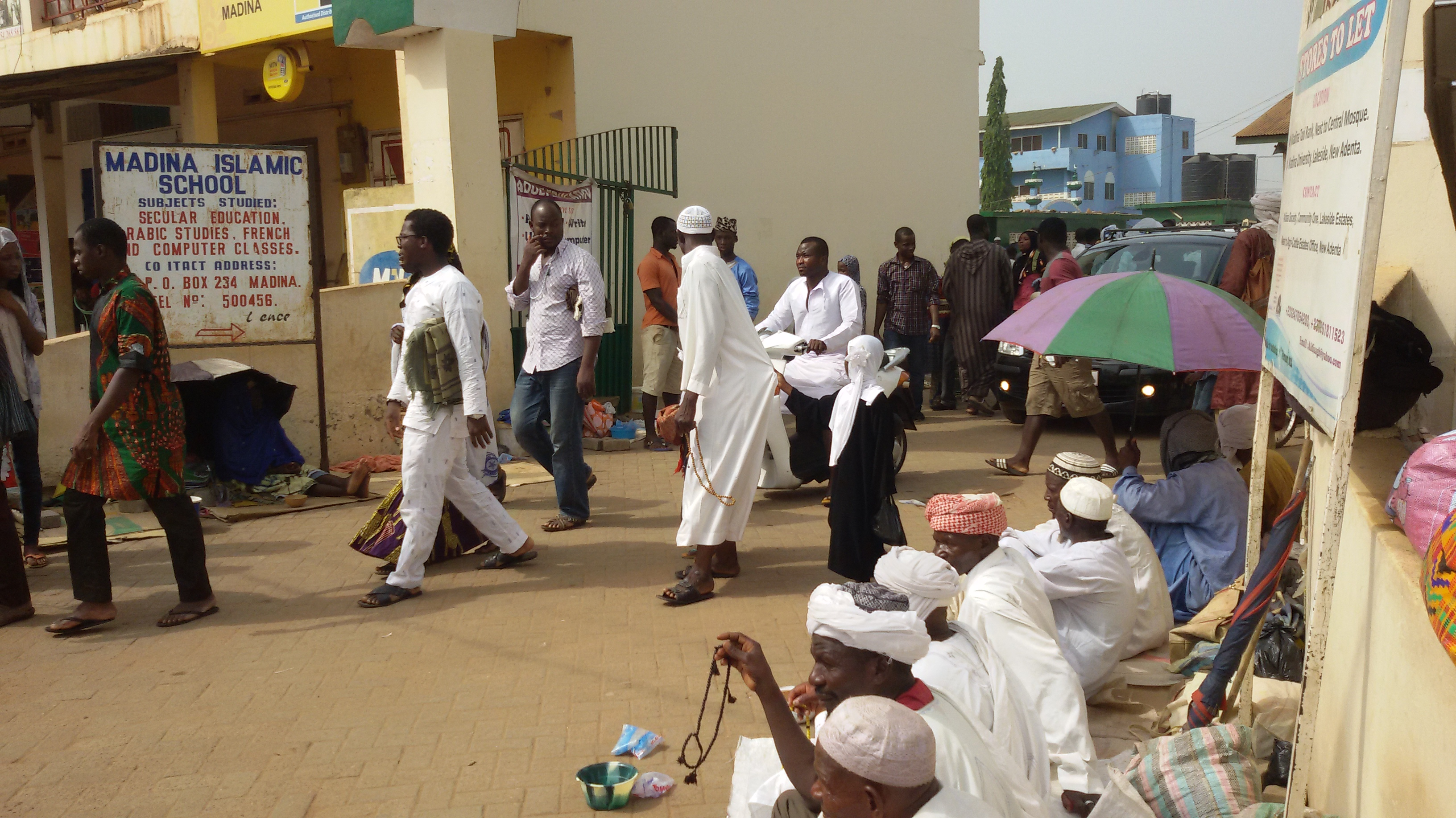 Beggars stationed at the entrance of Madina Mosque in Ghana soliciting money.